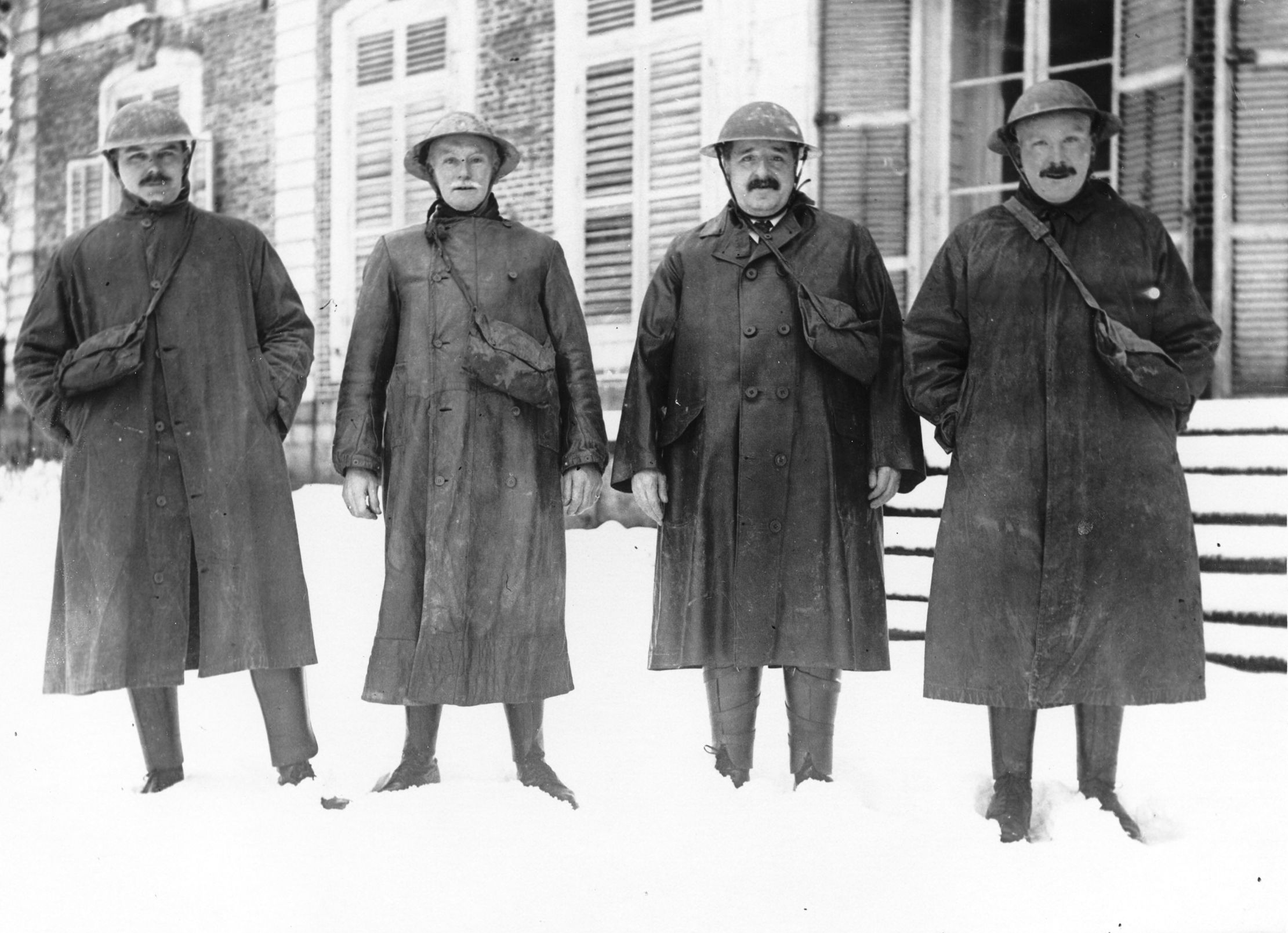 NLS caption : Delegates from the Miners’ Federation after visiting the front line, during World War I. It is likely that these delegates from the Miners' Federation were visiting the frontline as part of a consultation exercise with the general staff. Although this consultation could have been to do with the construction of trenches and dugouts, it is more likely that they were there to discuss the digging of tunnels underneath the German front line. Left to right Mr Henry Roughley Mr. Thomas Greenall, President of Lancashire and Cheshire Miners' Federation Mr. Henry Twist, agent for the Lancashire and Cheshire Miners' Federation Mr. John McGurk, Lancashire and Cheshire Miners' Federation (LCMF) agent for north-eastern area